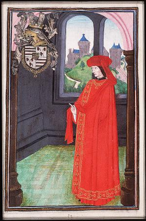 Statuts, Ordonnances et Armorial de l'Ordre de la Toison d'Or (Statutes, Ordonnances and armorial of the Order of the Golden Fleece) Place of origin, date: Southern Netherlands; 1473. Added sections: Southern Netherlands; 1478 or shortly after and 1491 or shortly after Material: Vellum, ff. 86, 249x187 (167x106) mm, 23 lines, littera cursiva (lettre bourguignonne). French. Binding: 18th-century brown leather Decoration: 1 full-page miniature (170x115 mm) with border decoration; 92 miniatures (185/155x120/100 mm); 1 historiated initial (80x90 mm) with border decoration; decorated initials with border decoration (ff., Added section: miniatures ; 4 drawings for miniatures (not finished) Provenance: Presented in 1473 by Gilles Gobet, King of Arms of the Order of the Golden Fleece, to Charles the Bold, Duke of Burgundy and the other Knights during the Chapter of the Order held at Valenciennes; Treasure of the Golden Fleece, Brussls; taken away by the Treasurer C.-F. Humyn (d. 1735) or his daughter C.Ch. de Corte; by legacy to her daughter M.-L. de Corte, wife of Ph.-E. de Poederlé; purchased in 1781 at the Poederlé sale by G.-J- Gérard of Brussels; acquired in 1832 as part of the Gérard collection (no. A 27)